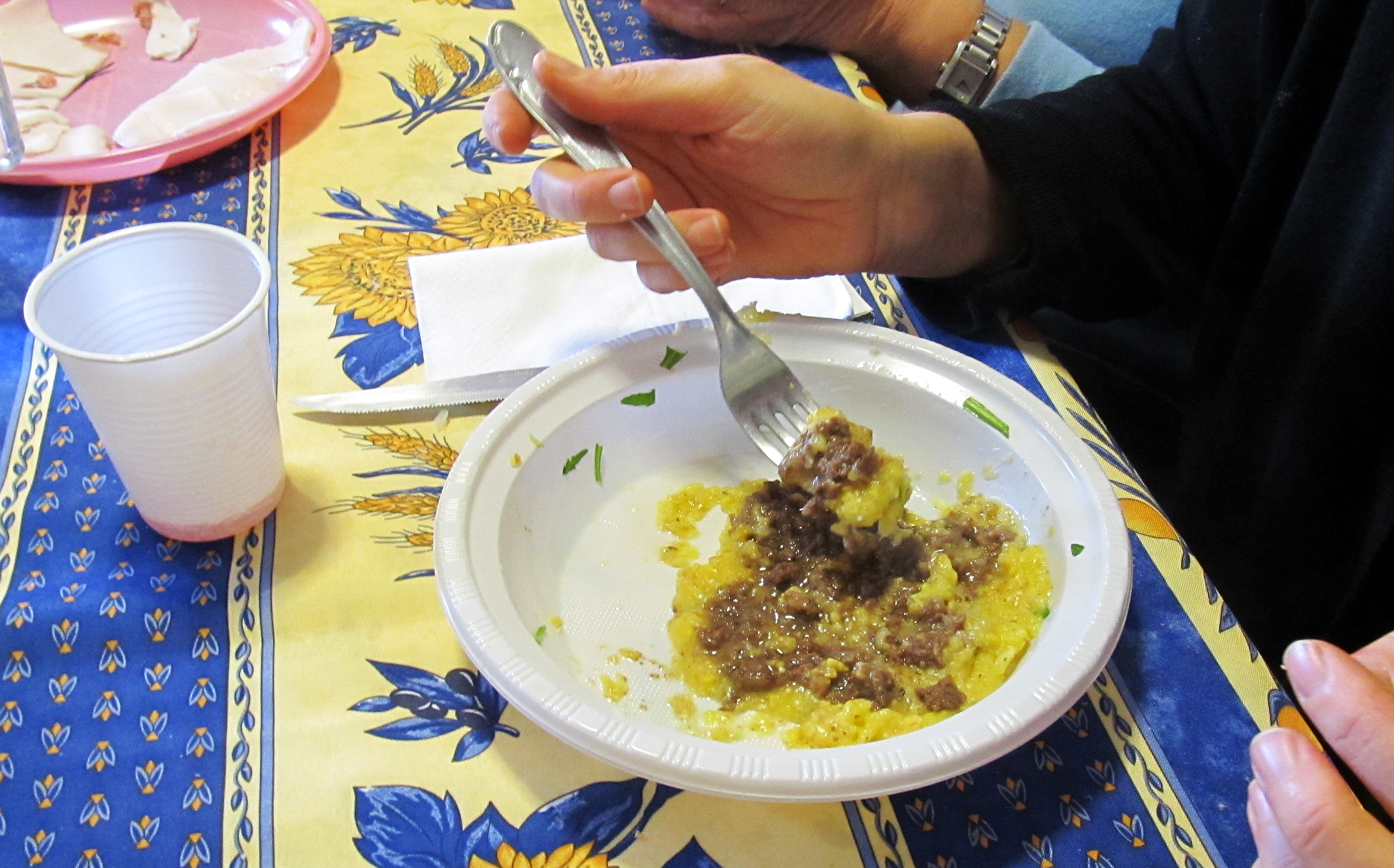 Polenta and tapulon (traditional recipe of NE Piedmont, Italy)